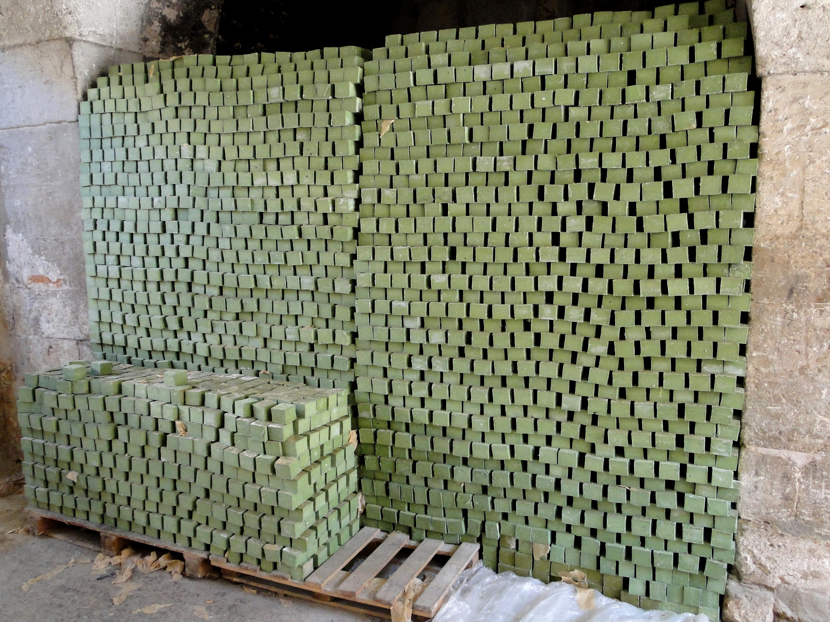 Aleppo soap at the Al-Jebeili factory, Aleppo, Syria